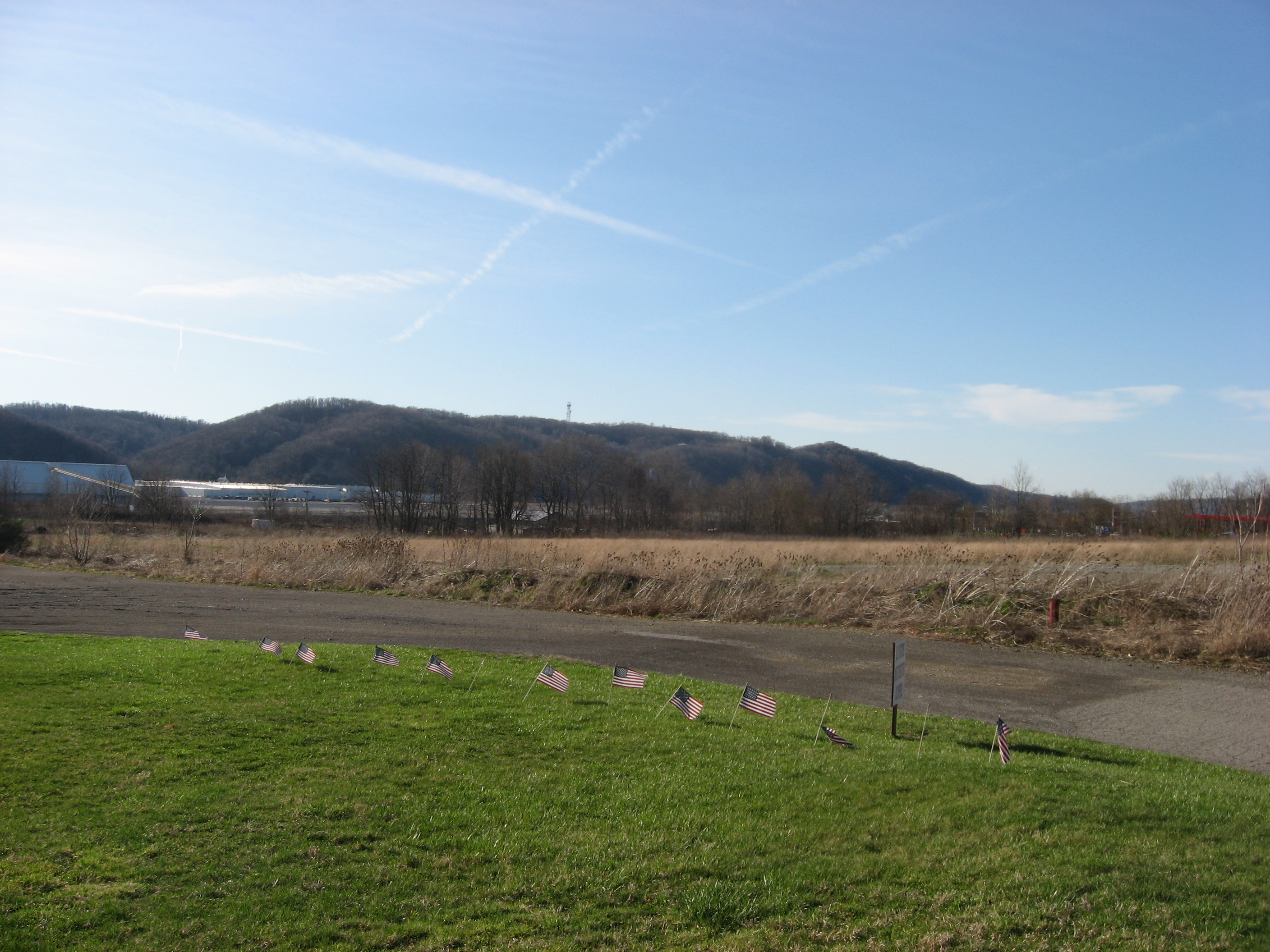 Looking northwest across fields at the southern end of the site of Legionville, the first active training site for the United States Army under Anthony Wayne. Located along Duss Avenue in Harmony Township, Beaver County, Pennsylvania, United States, the site is listed on the National Register of Historic Places.